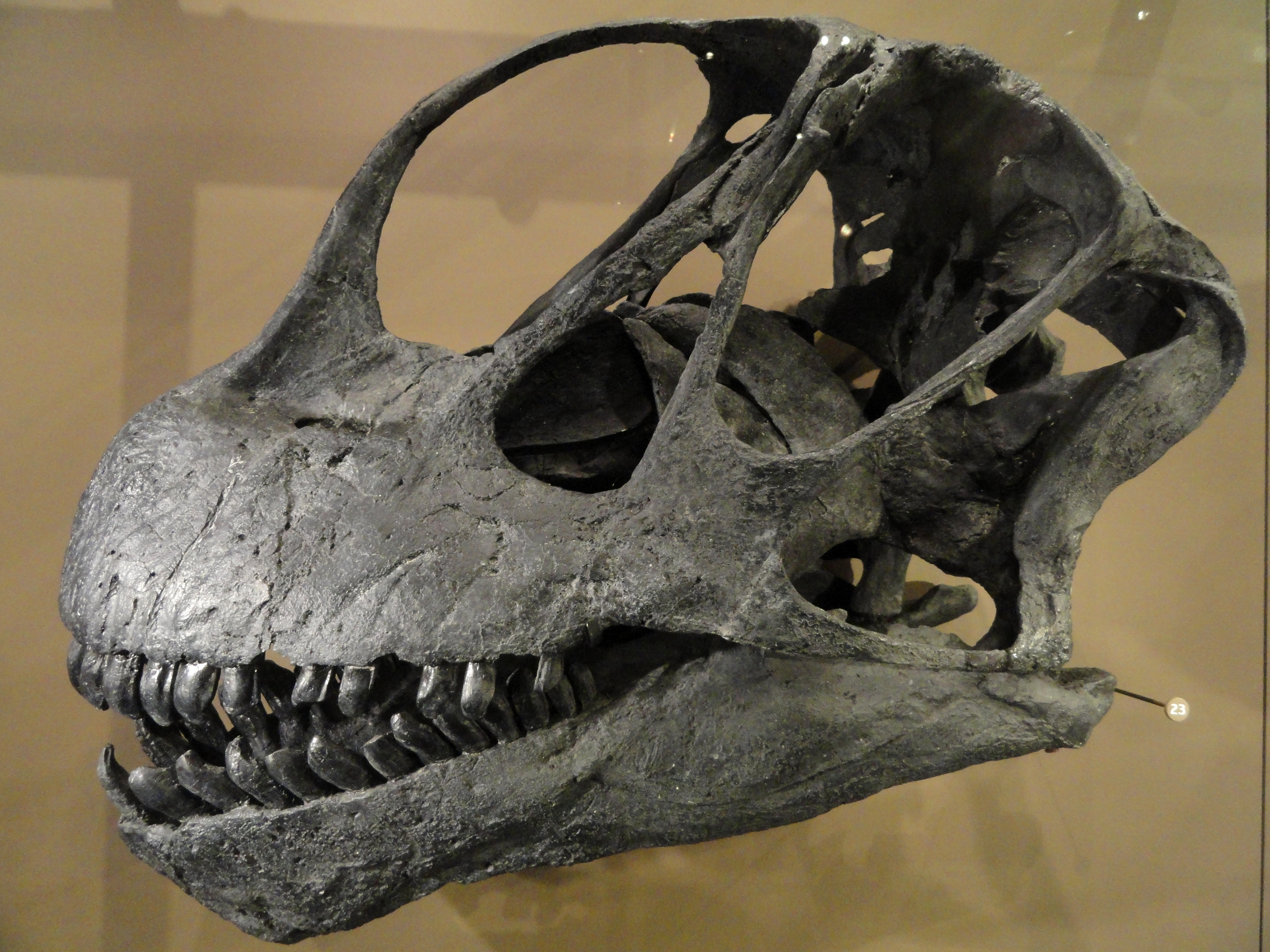 Fossil specimen in the Natural History Museum of Utah, Salt Lake City, Utah, USA.